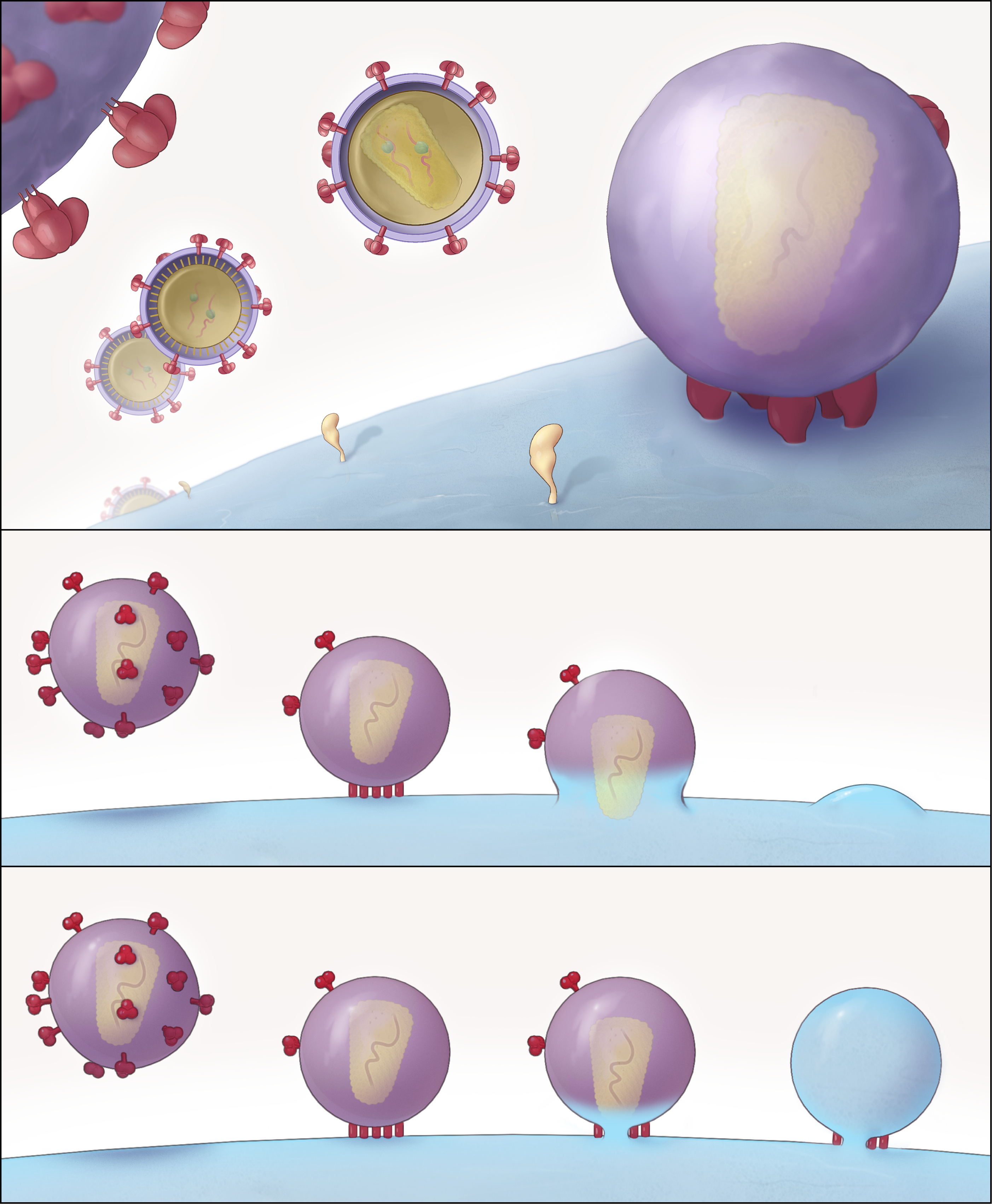 "Schematic Representation of the Key Structural Features of SIV and HIV-1 Entry into T Cells" (A) Different stages of viral entry from budding, to maturation, to entry claw formation. For the SIV strain used here, viruses that are docked to the cell via an entry claw show very few, if any, viral spikes on their surface, whereas non-contacting viruses typically display between 60 and 100 spikes on their surface. The entry claw is composed of between five to seven anchors spanning the region between the virus and the cell, each ∼100 Å long, and spaced laterally by ∼150 Å. (B and C) Two alternative models for viral entry. In the global fusion model (B), the formation of the entry claw is followed by progressive fusion of the viral membrane across its width, leading to merger of the contents of the viral membrane with the cellular membrane. In the local fusion model (C), the formation of the entry claw is followed by the creation of a local pore centered at one of the rods, leading to delivery of the viral core into the cell."